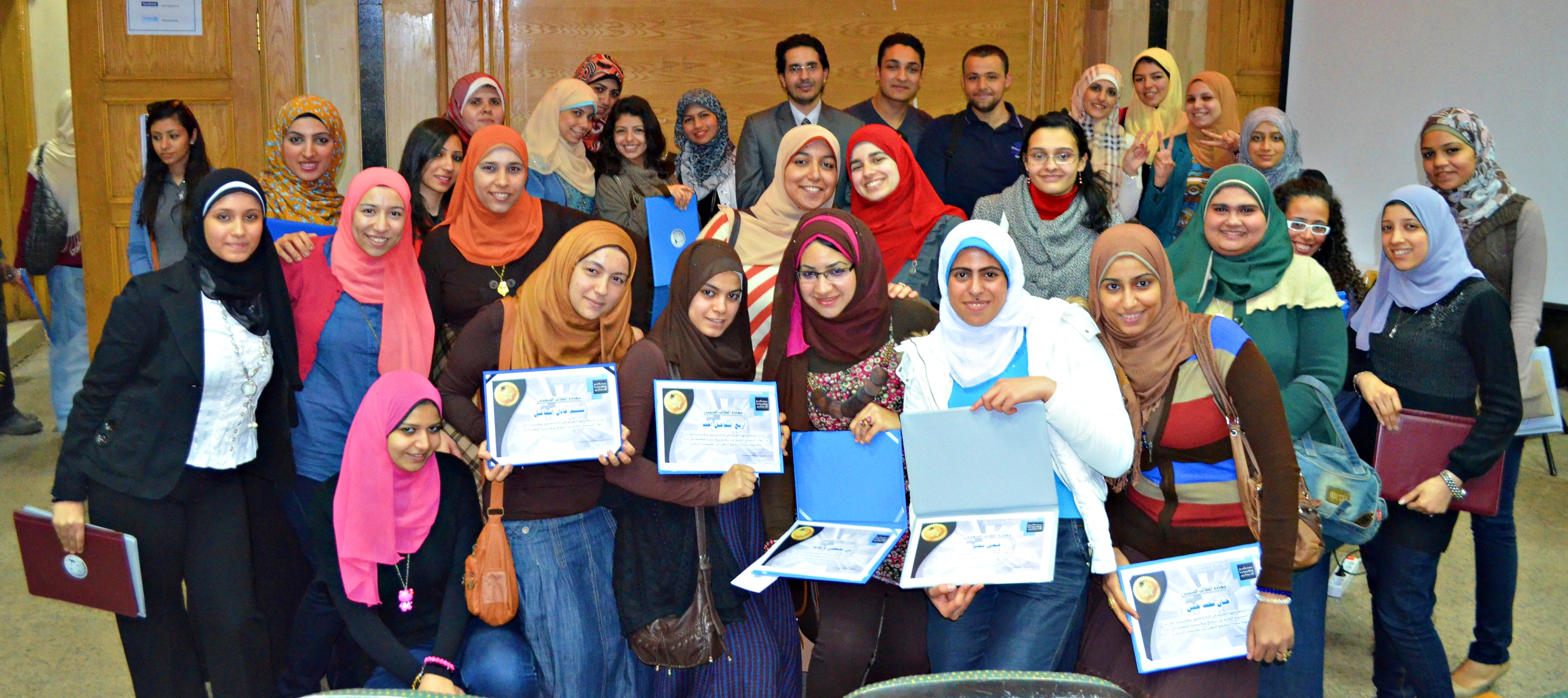 Second Conference of the Wikipedia Education Program in Cairo University, Egypt, February 27, 2013.